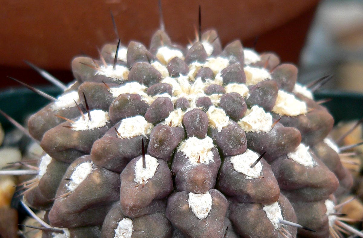 Photo of Pyrrhocactus chaniarensis at the University of California Botanical Garden